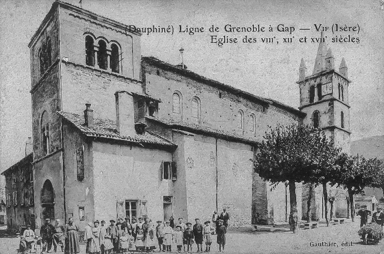 Image of St Jean Baptiste Church, Vif, Isère (France)